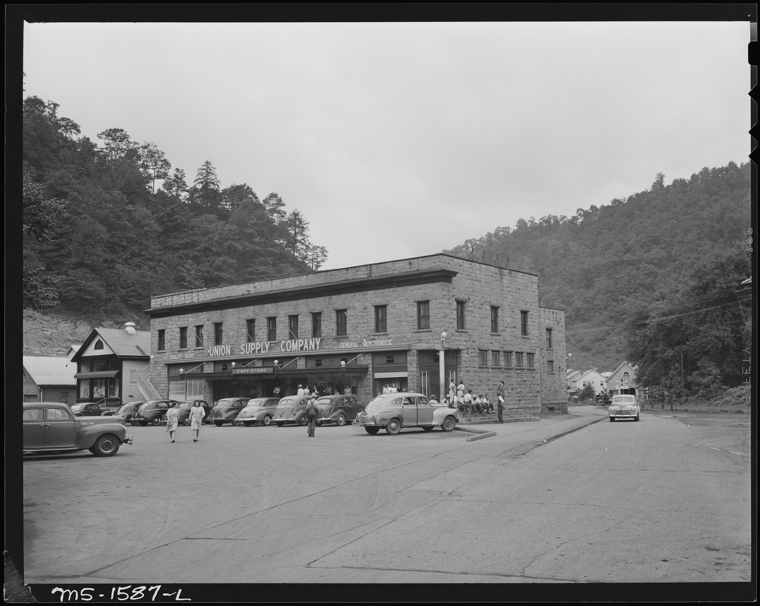 Scope and content: Subsidiary company store. This store has ample stocks of good quality merchandise selling at chain store competative prices. Refrigeration space for meats, milk, vegetables, etc. is ample and clean. Merchandise sold includes groceries, vegetables, meats, milk, toilet articles, patent drugs, men"s, women's and children's clothing furniture, hardware, building supplies, sporting goods, household furnishings, linens, towels, draperies, etc. U.S. Coal and Coke Company, Gary Mines, Gary, McDowell County, West Virginia.